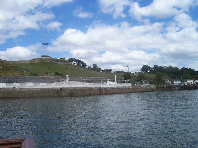 Plymouth : Coastline The coastline of Plymouth taken from a tour boat which goes around the docks. Mount Wise with the statue of Winged Victory atop the Scott Memorial (right). Mount Wise with 1770s Redoubt now containing a 40 m high recreational mast erected in 1998 with circular viewing platform for (centre) and statue of Winged Victory atop the Scott Memorial (distant right), commemorating the explorer Captain Robert Falcon Scott, Royal Navy, and others who died in March 1912 on their return from the South Pole. Behind the low white wall in the foreground is a series of small swimming pools. "A redoubt was built at the summit of the ridge that ran across Mount Wise and a series of gun batteries were laid out to protect the dockyard and to prevent access to the Hamoaze from Plymouth Sound. This redoubt later became a naval signal station, equipped with a shutter telegraph connecting to the Admiralty in London"(